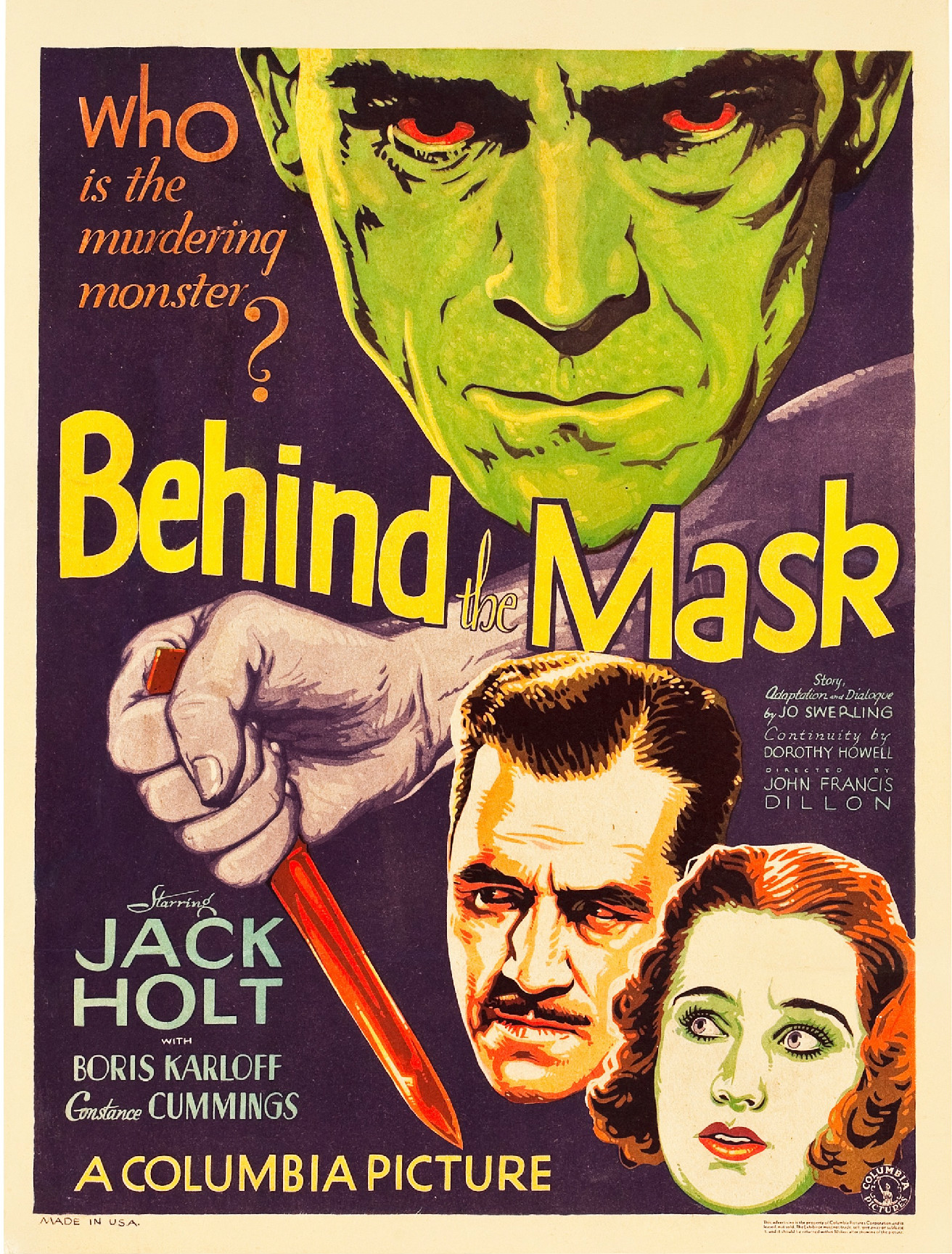 Poster for the American crime film Behind the Mask (1932).